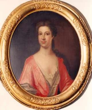 Elizabeth, Lady Barnard (formerly Elizabeth Nash, née Elizabeth Hall) (1608 - 1670).